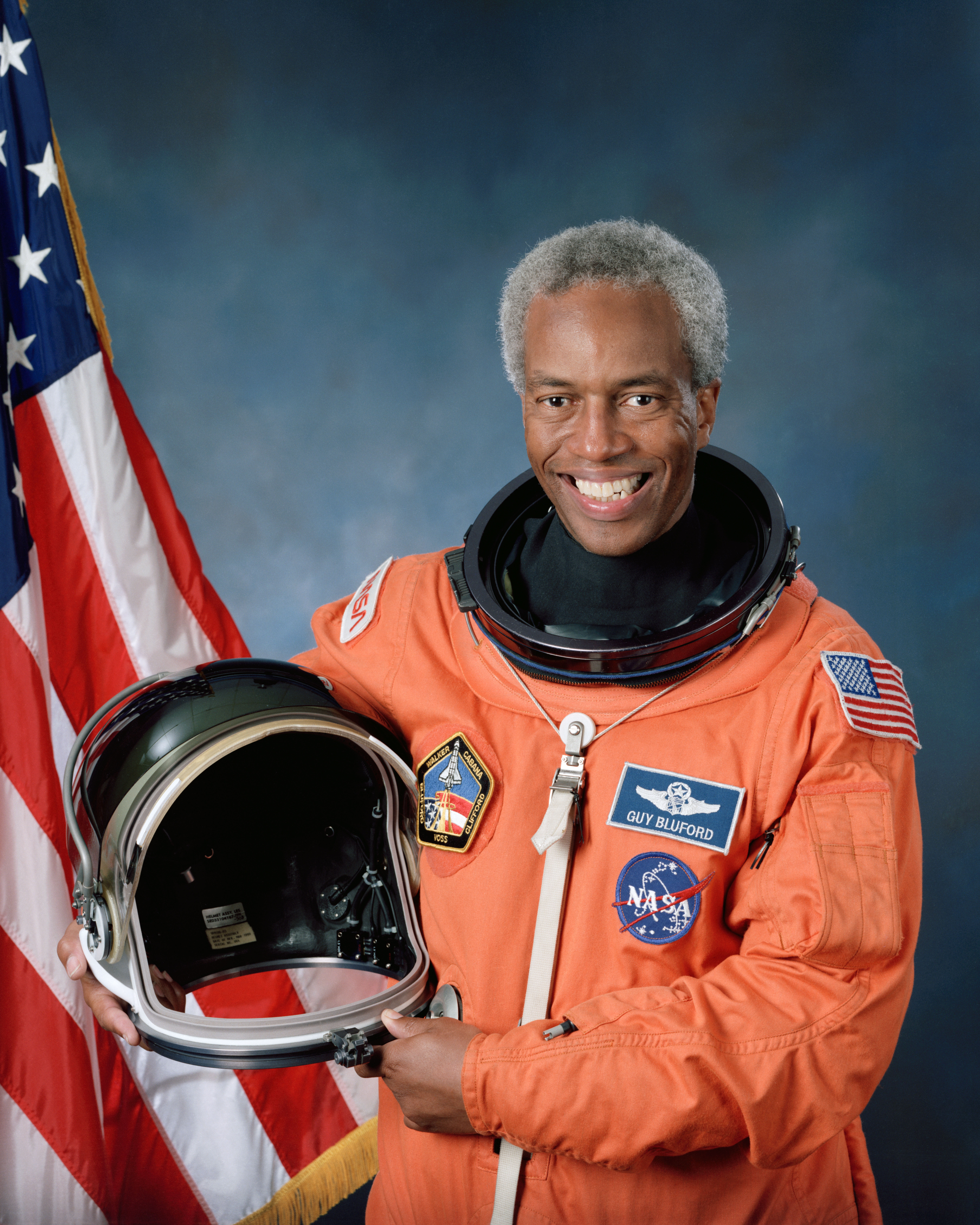 Official portrait of astronaut Guion S. Bluford. Bluford, a member of Astronaut Class 8 and the United States Air Force (USAF), poses in his launch and entry suit (LES) holding a launch and entry helmet (LEH) with the United States flag as a backdrop. Image ID: S92-48766